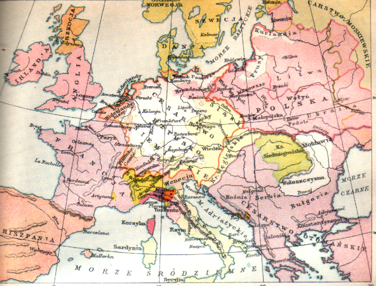 Europe in the 17th century